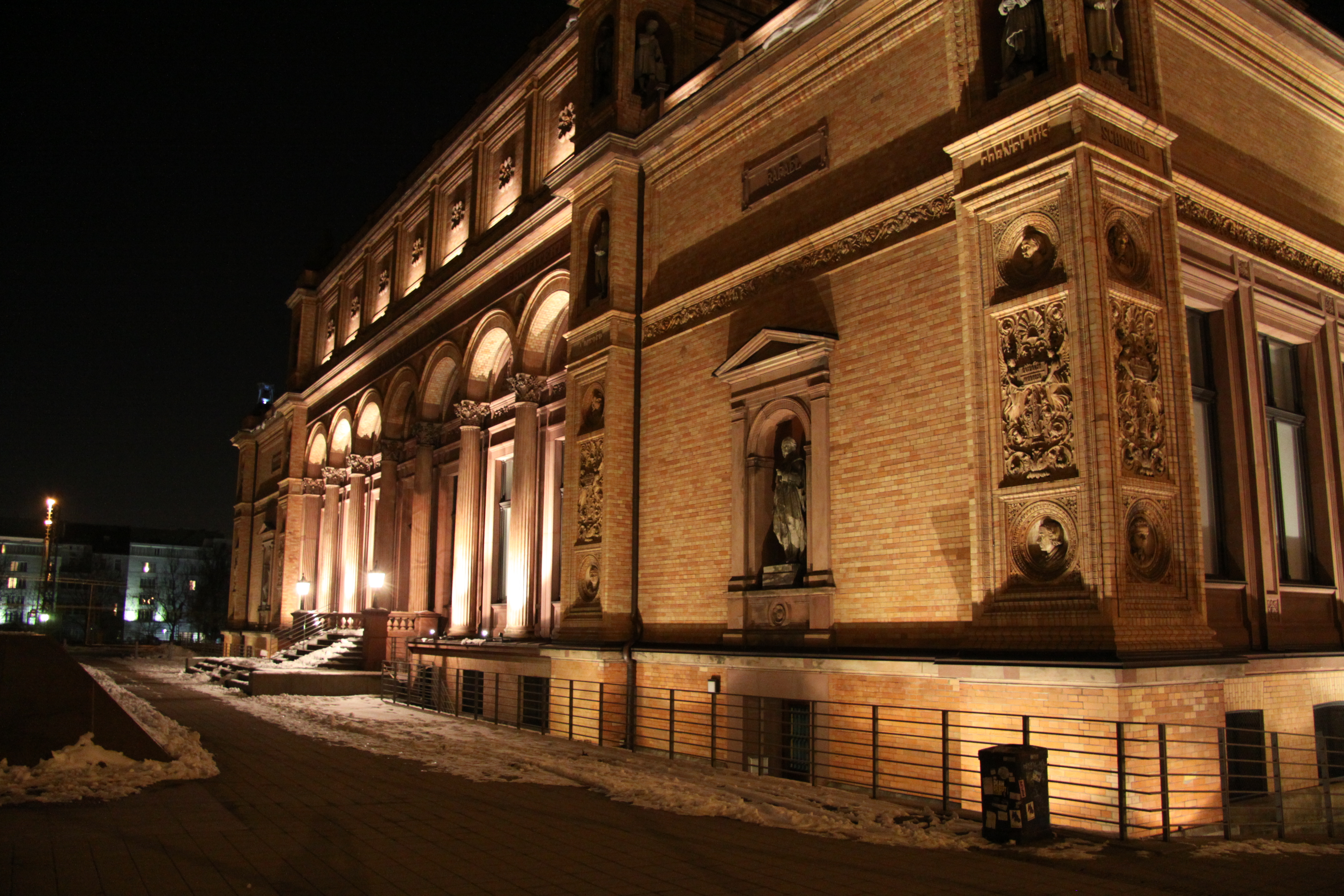 The Hamburger Kunsthalle at night. This is a photograph of an architectural monument., no. 390